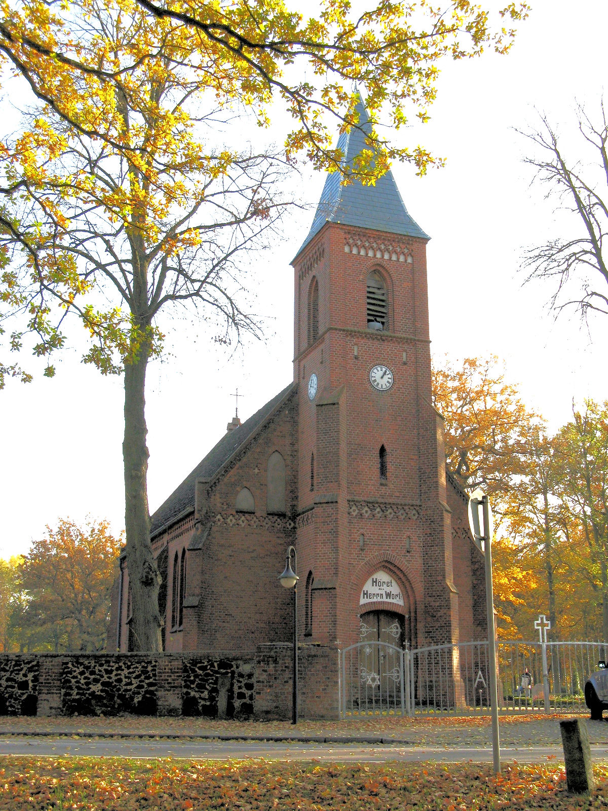 Church of Woebbelin, Germany